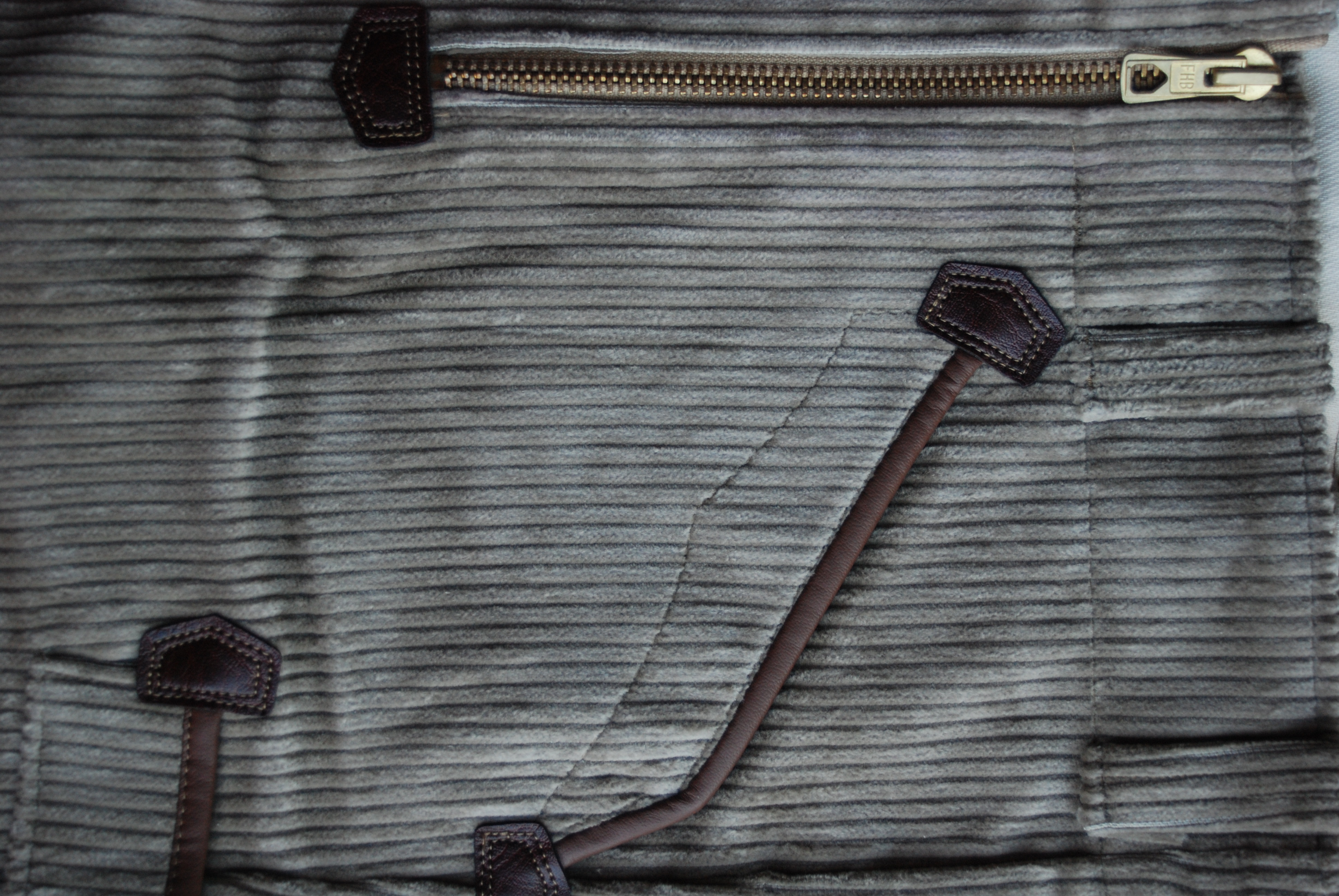 Close capture of beige 5-wale corduroy with zippers and brown artificial leather piping